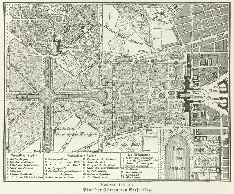 Versailles Gardens Map from Meyers encyclopedia 1890